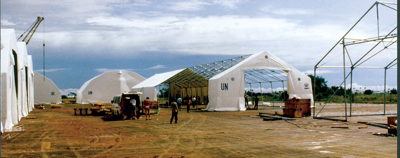 500 people were housed in these Rubb shelters at Kampong Song, Cambodia. The shelters provided a temporary camp on the beach.